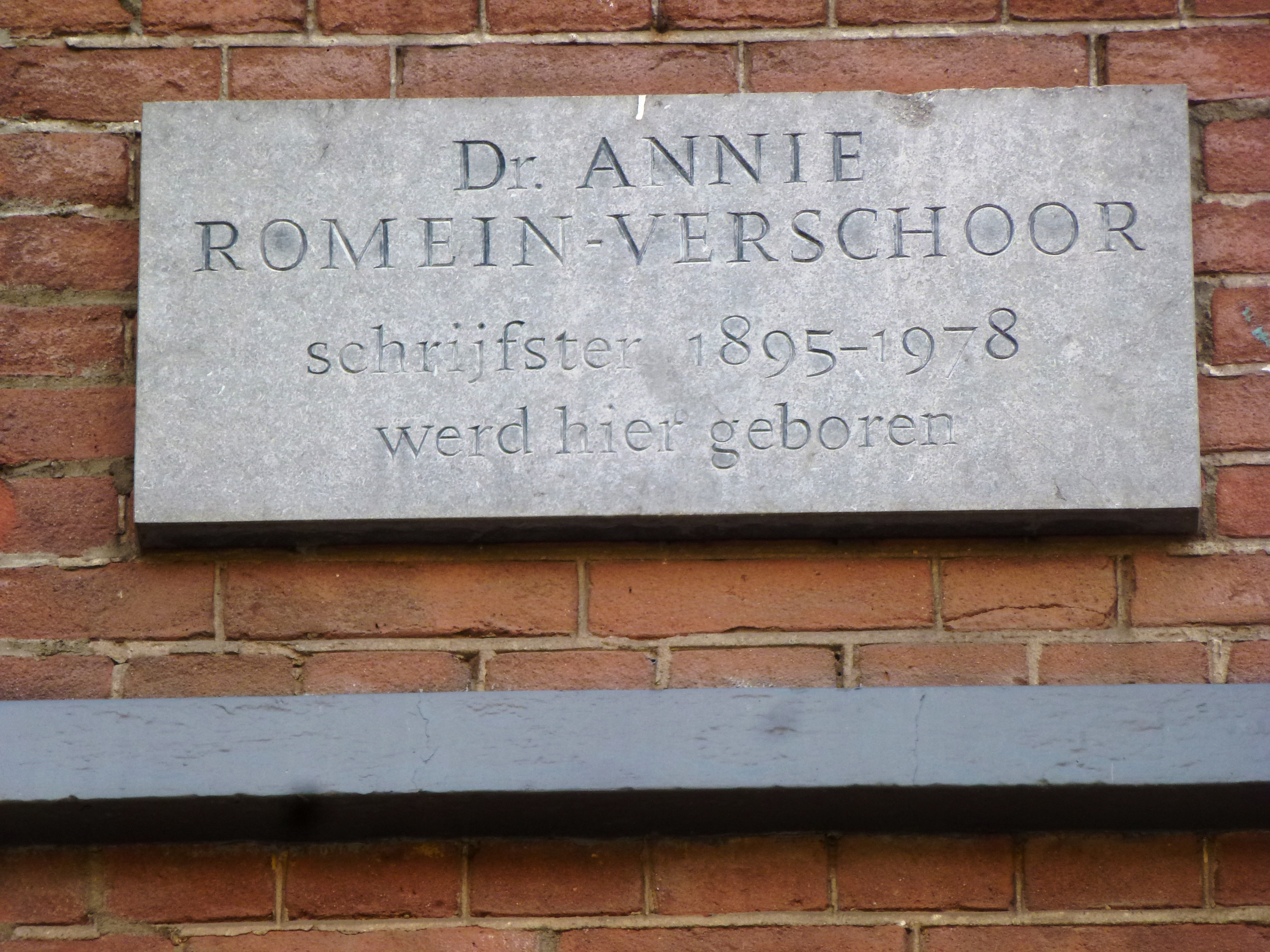 Nijmegen Burghardt van den Berghstraat 107 plaquette geboortehuis A.Romein-Verschoor